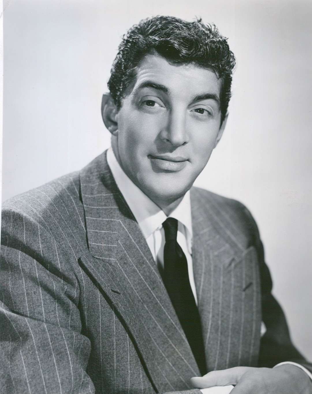 Photo of Dean Martin as he began an NBC show with Jerry Lewis.